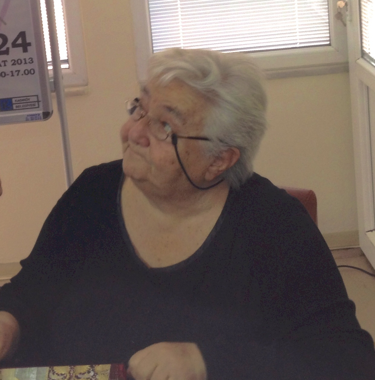 A photo of Nurhan Atasoy